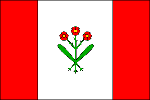 Municipal flag of Švihov town, Klatovy District, Czech Republic.